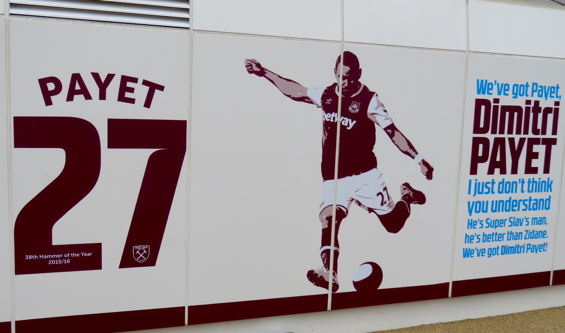 A mural of West Ham United player, Dimitri Payet outside the London Stadium, Stratford, London.